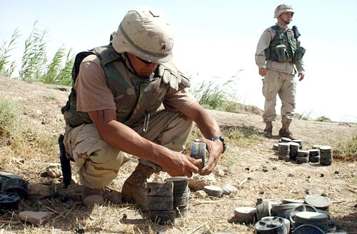 U.S. Army Sgt. Kirk Medina, from 759th Explosive Ordinance Disposal, out of Fort Erwin, Calif., attached to the 3rd Infantry Division (Mechanized), removes fuse from a Russian-made mine, while working together with soldiers from A Company, 10 Engineer Battalion, 2nd Brigade, 3rd Infantry Division, to clear a mine field outside of Fallujah, Iraq, during Operation Iraqi Freedom, June 25, 2003. Since the end of the war in Iraq, a major objective for A Company has been the collection and disposal of Iraqi munitions.